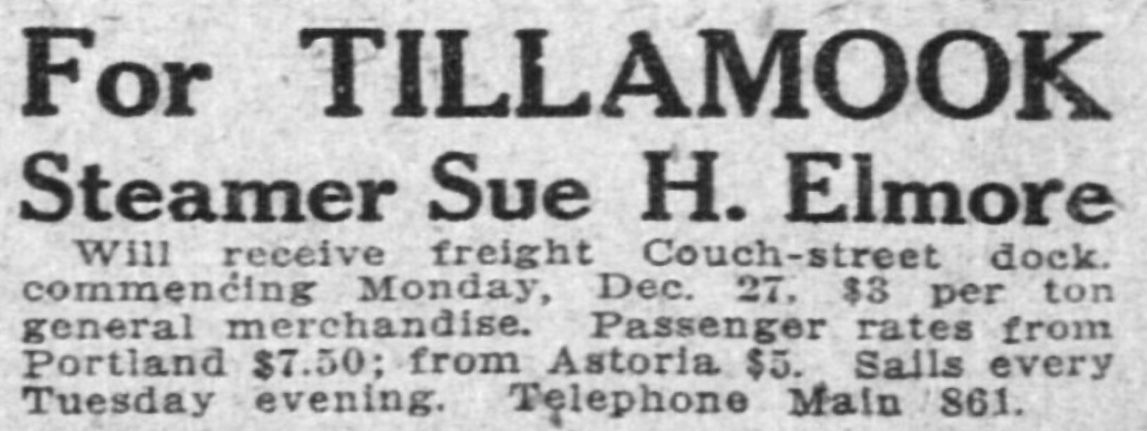 Advertisement for the steamer Sue H. Elmore published in 1909 in the Sunday Oregonian.